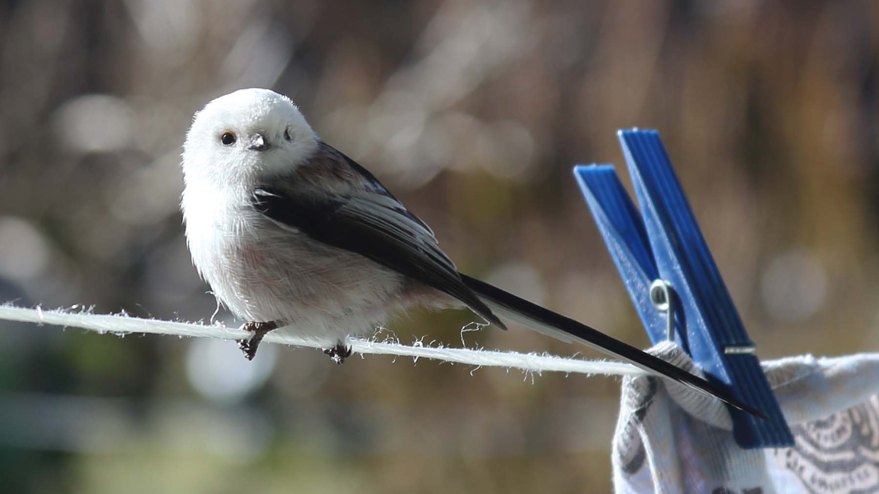 Long-tailed tit (Aegithalos caudatus caudatus) on a wire.